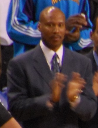 Byron Scott as coach of New Orleans Hornets.